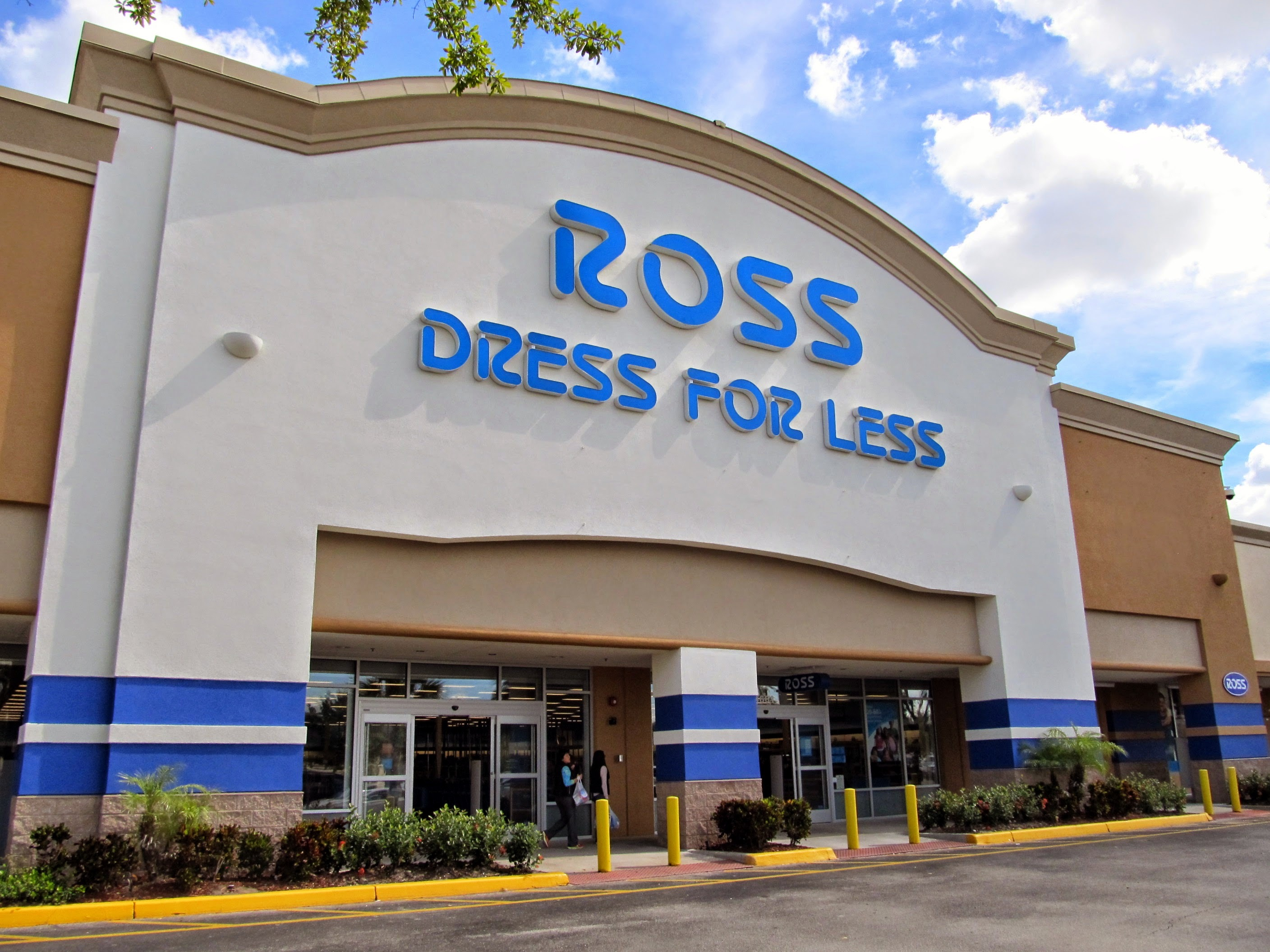 Store at Millenia Plaza in Orlando